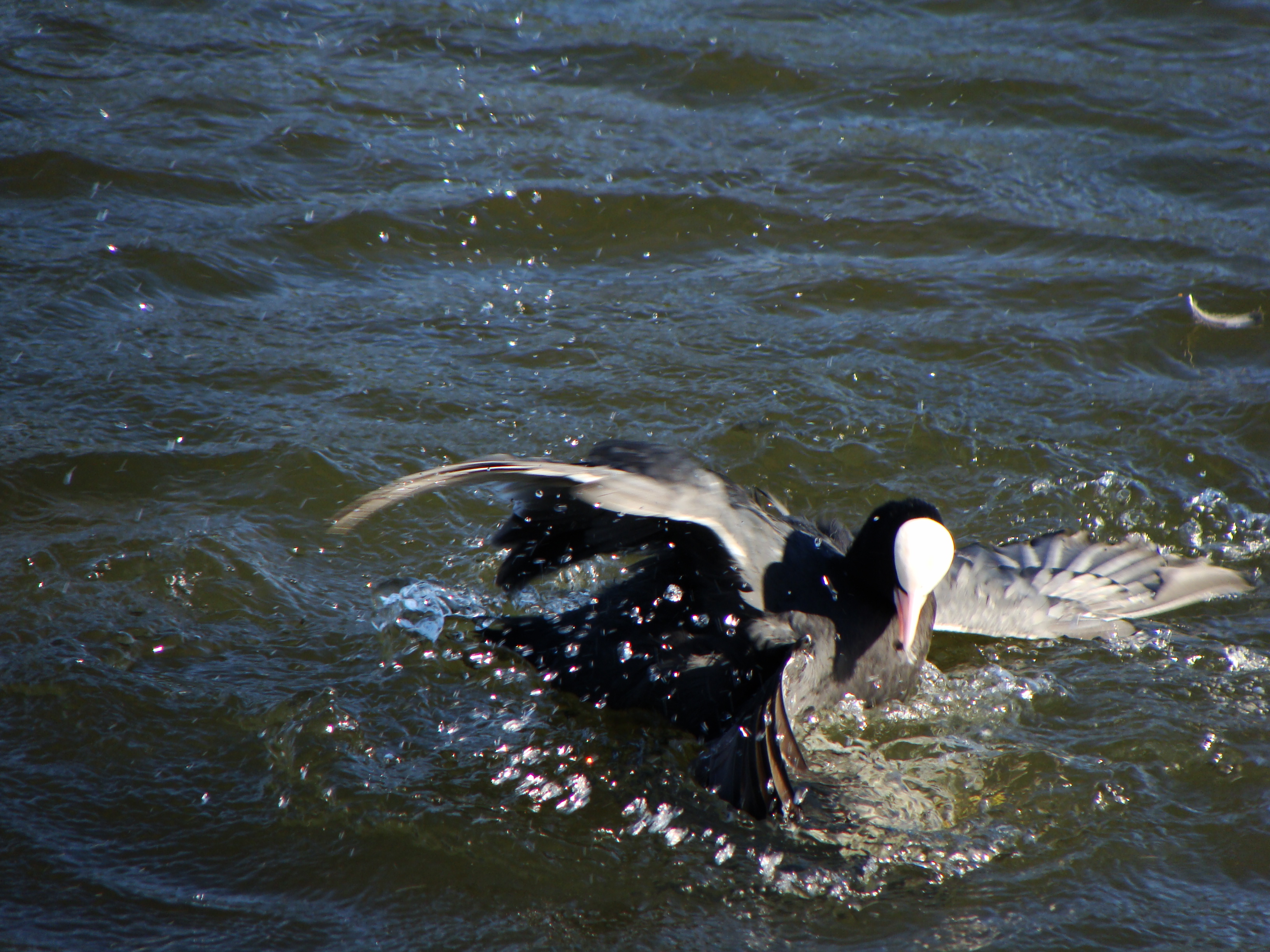 Fighting Eurasian Coots